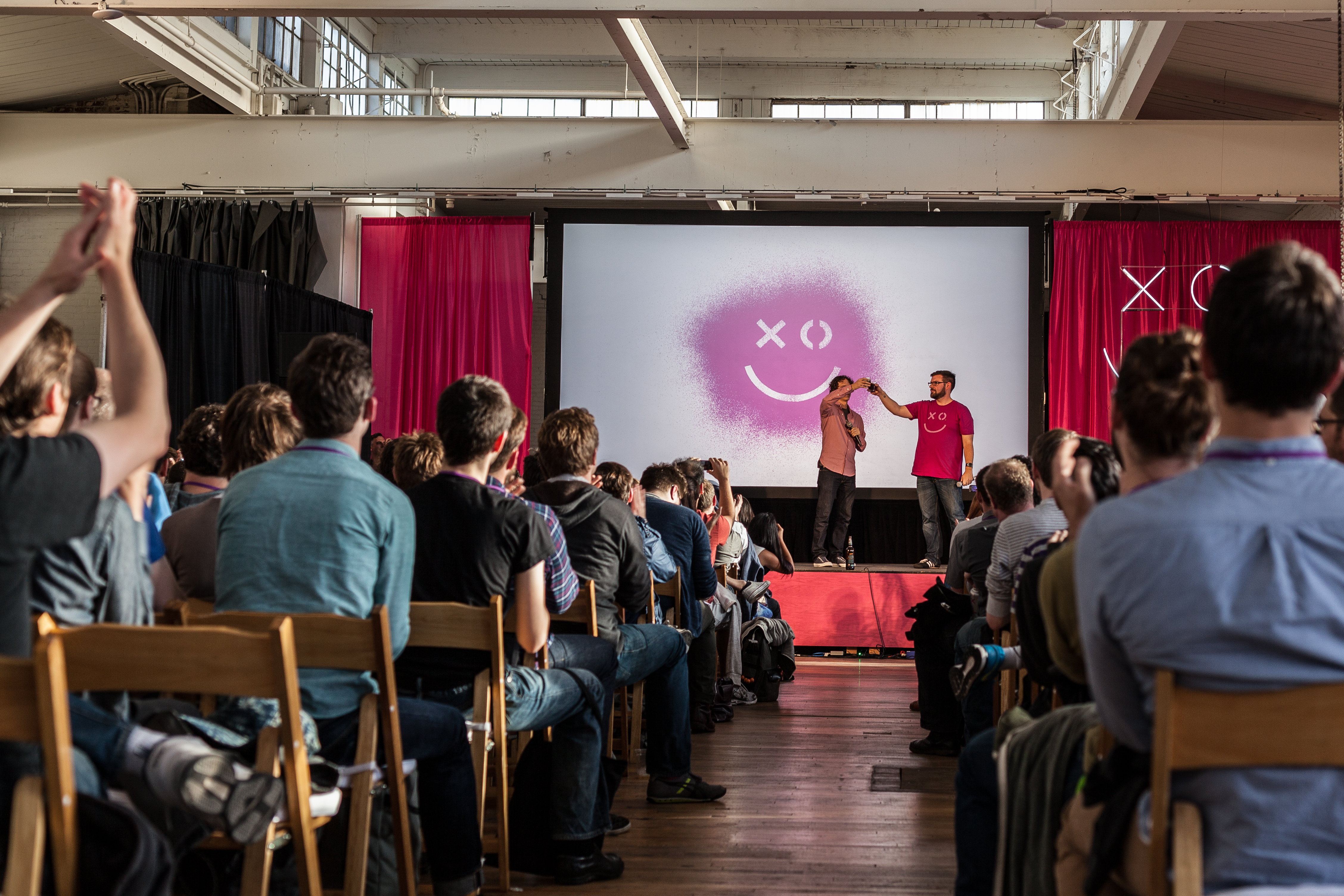 At the XOXO Festival in Portland, Oregon, in September 2013.